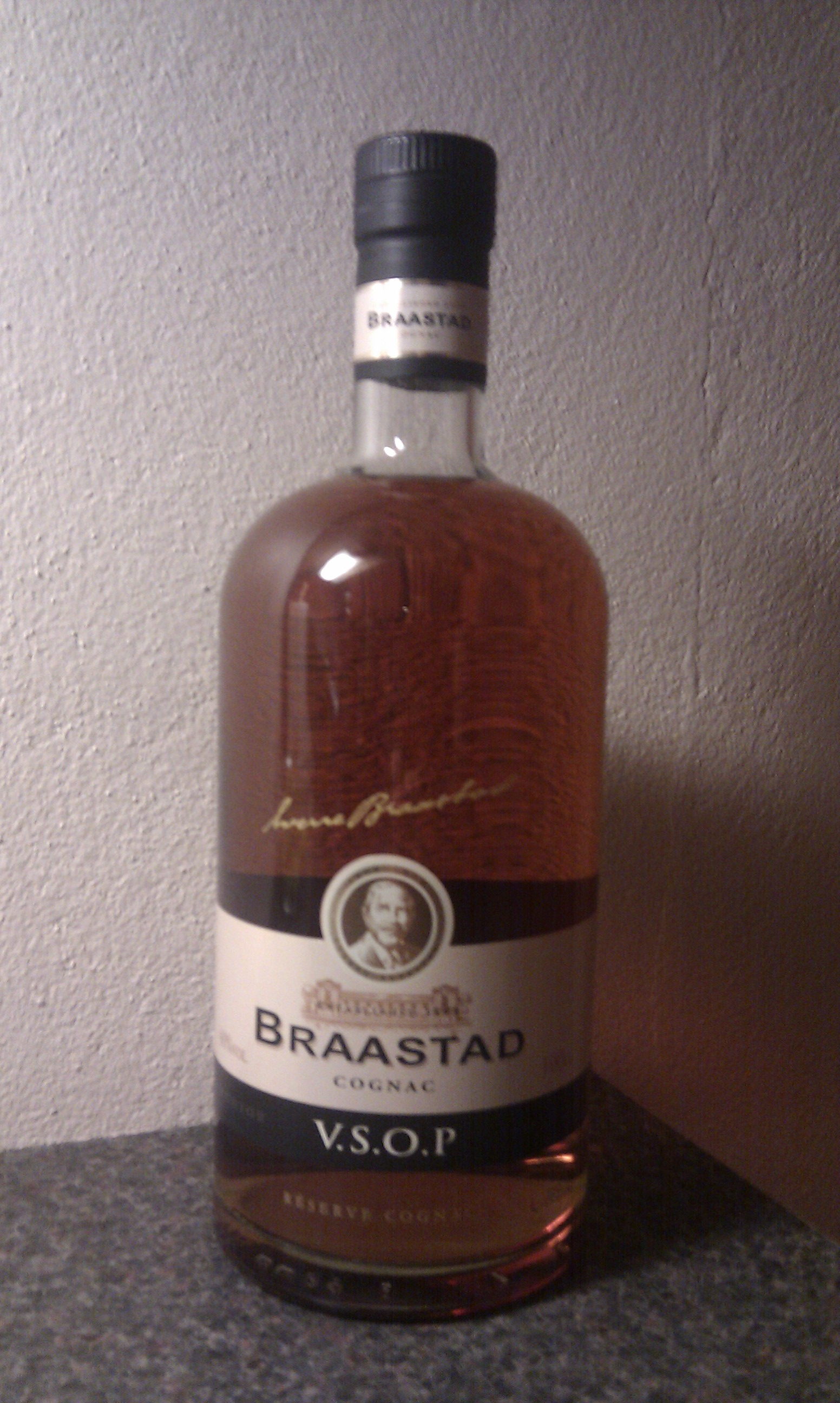 Bottle of Braastad VSOP (cognac)